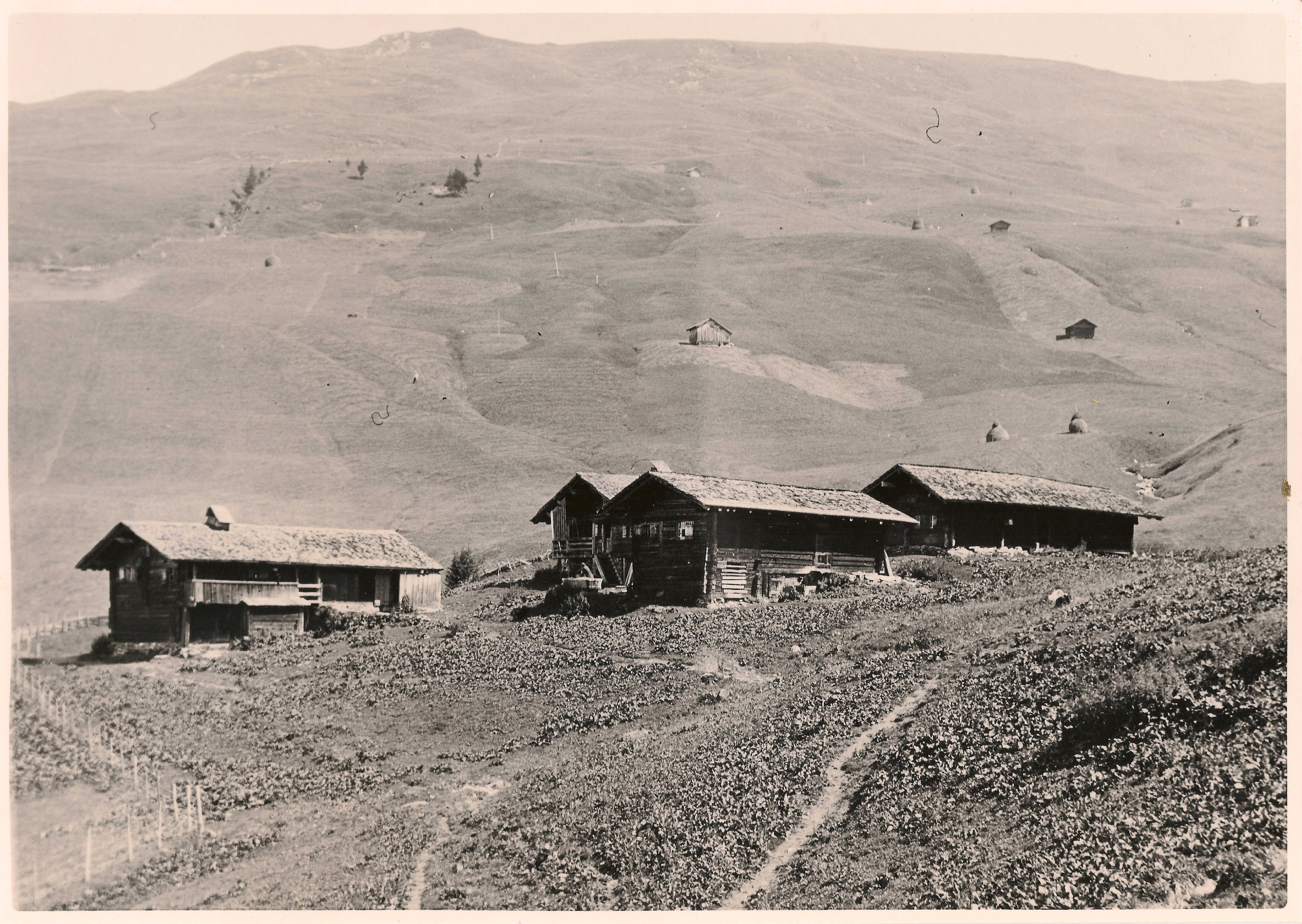 Vorderer Albrist Walliser Hütten